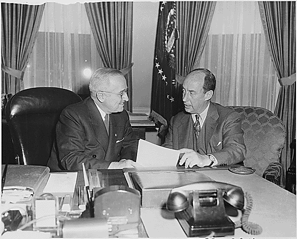 President Harry Truman (left) and Democratic presidential candidate Adlai Stevenson (right) meeting in the Oval Office.